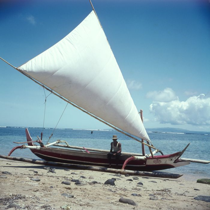 Proa with hoisted sail at the beach